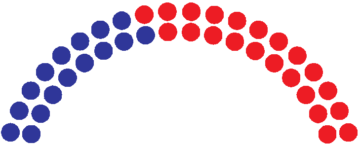 I created this work myself by modifying :File:Michigan State Senate 2011-2015.png